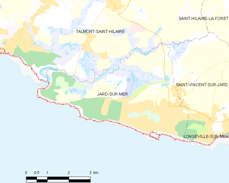 Map of French municipality Jard-sur-Mer